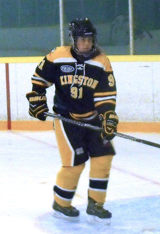 Taken by Devan Mighton during 2013-14 PWHL season.